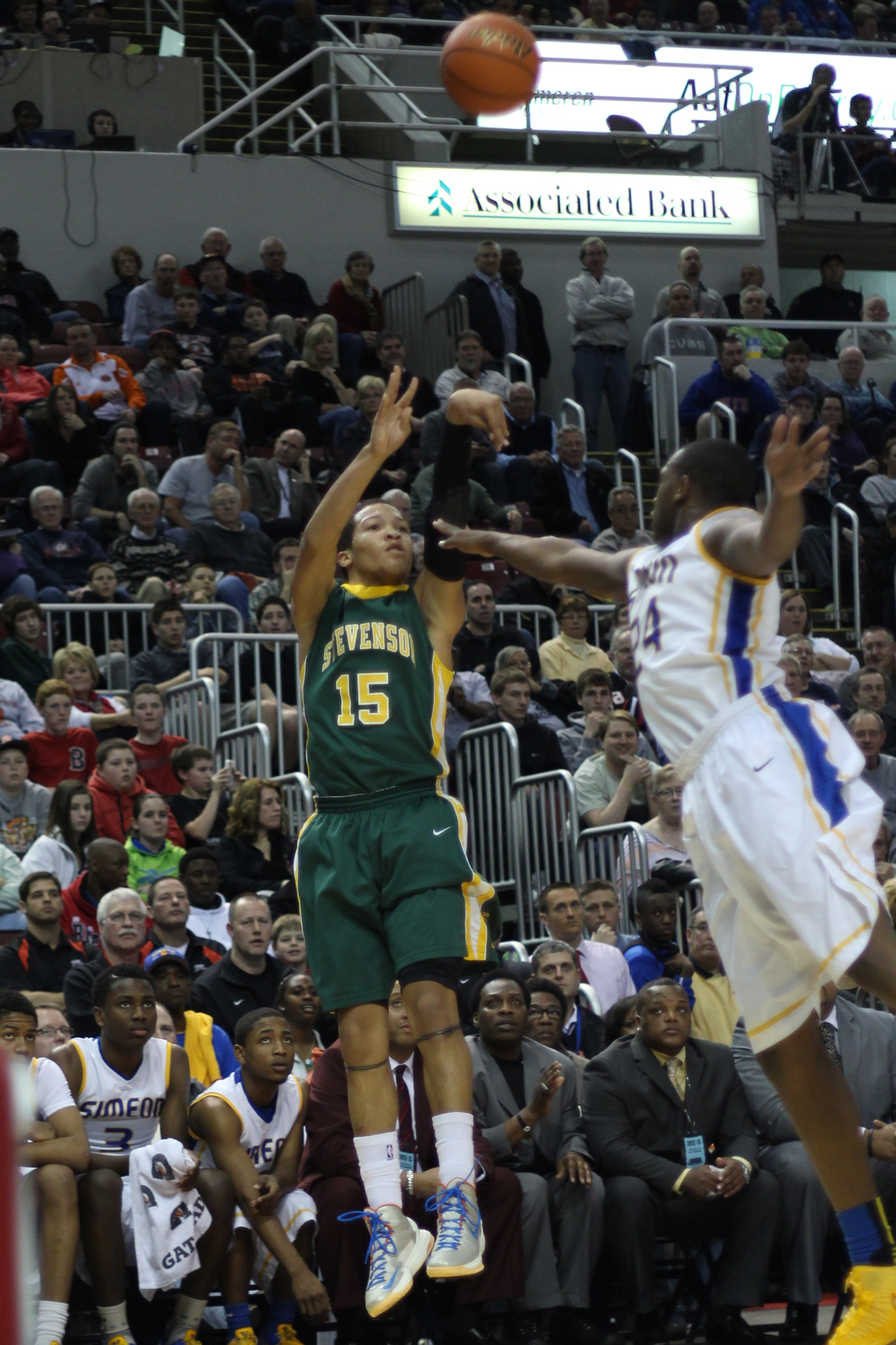 Jalen Brunson in the 2013 Class 4A Illinois High School Association championship game